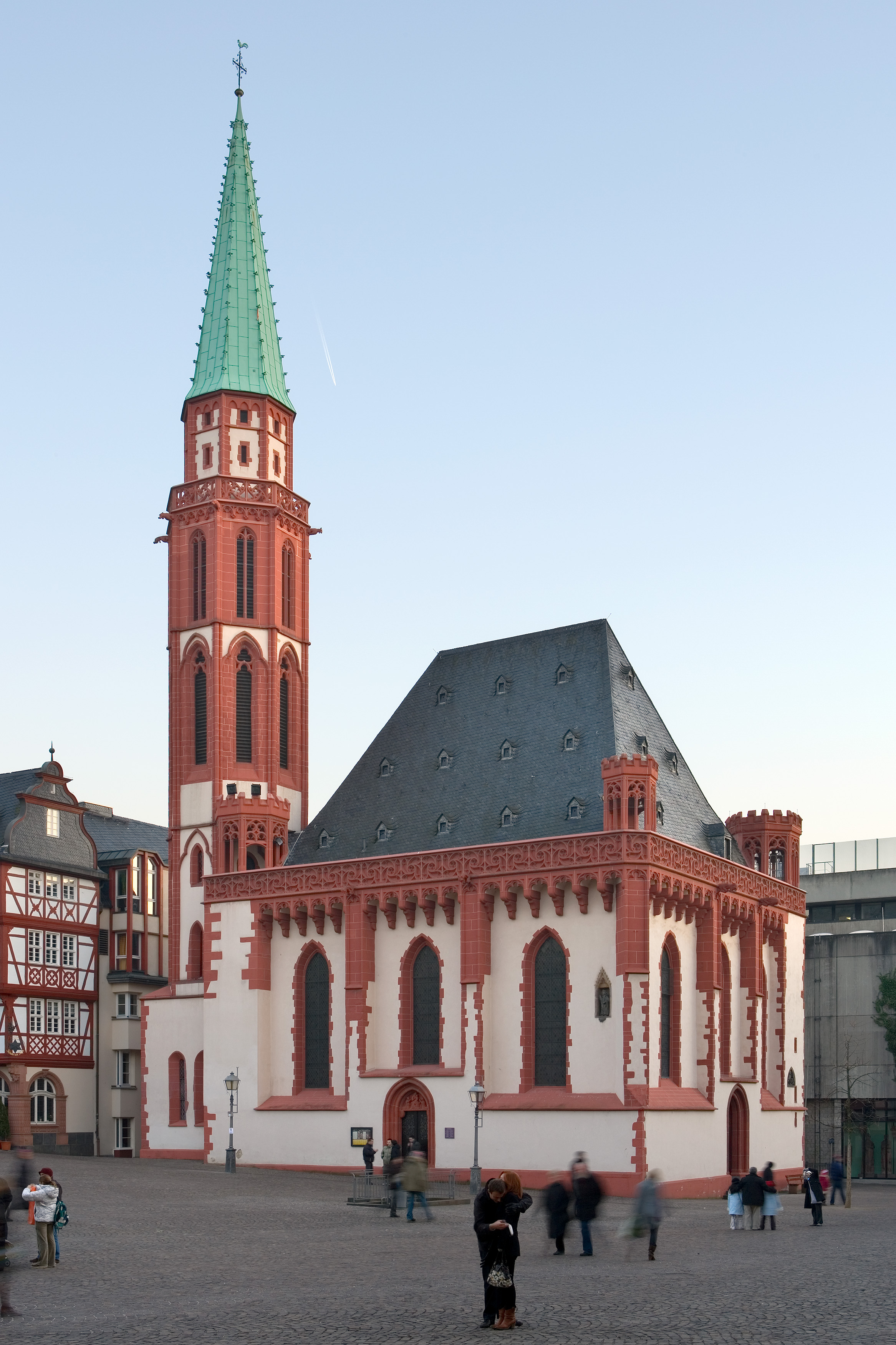 Frankfurt on the Main: Alte Nikolaikirche (Old Saint Nicholas Church) as seen from the Roemerberg